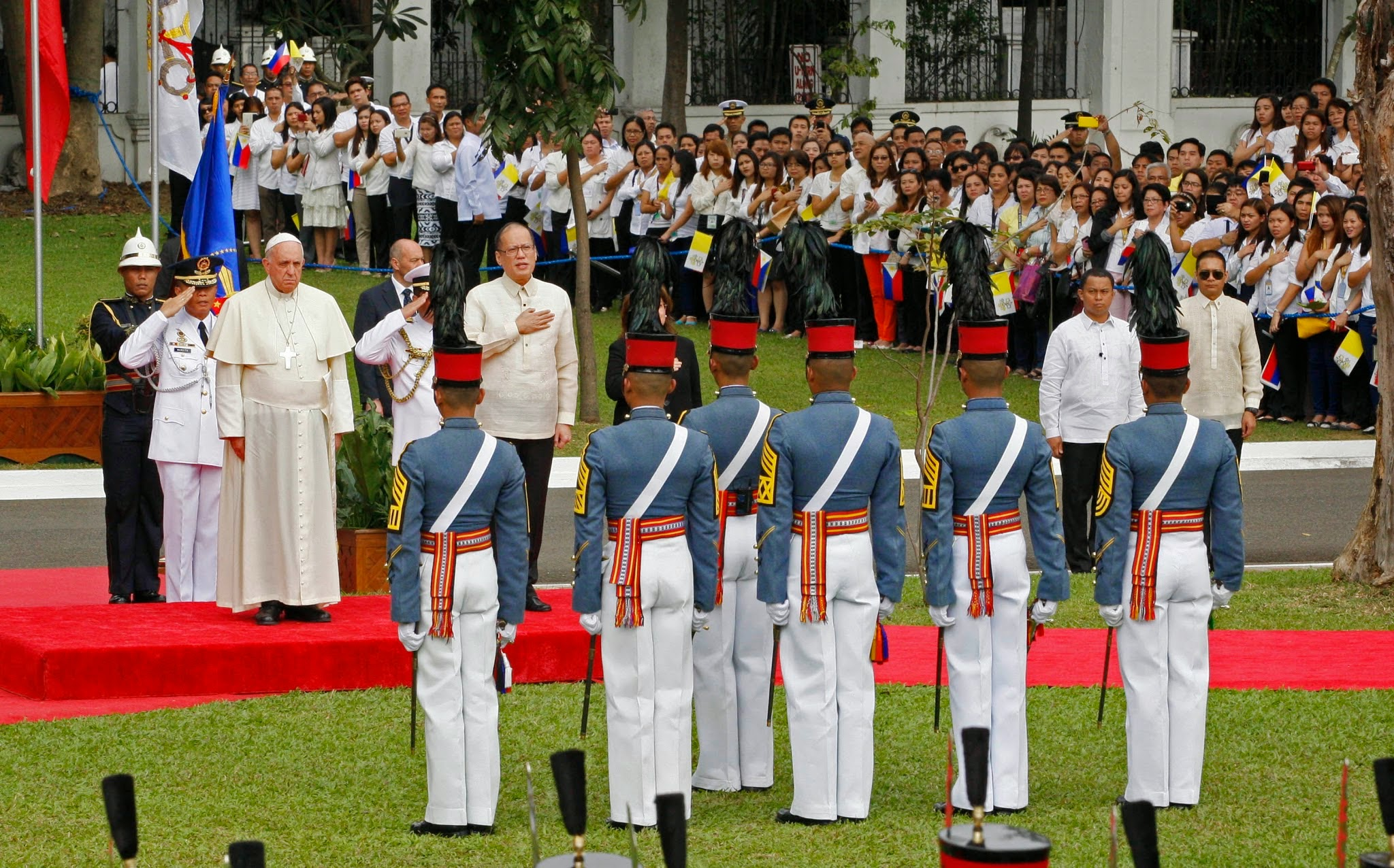 President Benigno S. Aquino III and His Holiness Pope Francis lead the singing of the Pontifical and Philippine National Anthem during the welcome ceremony at the Kalayaan Grounds of the Malacañan Palace for the State Visit and Apostolic Journey to the Republic of the Philippines on Friday (January 16, 2015)